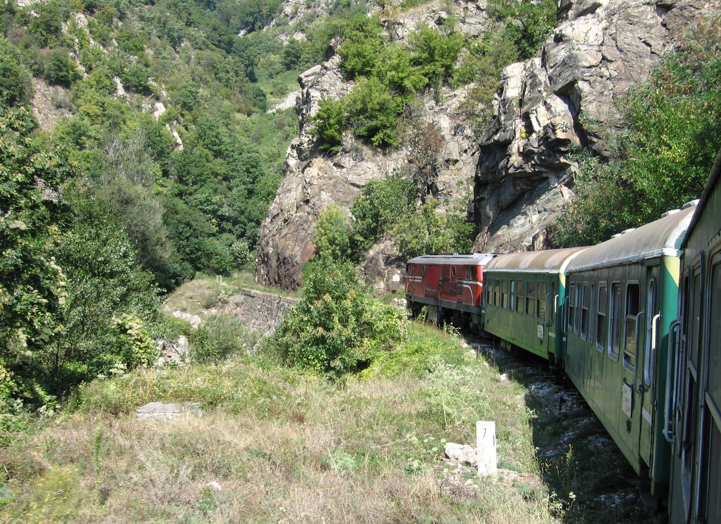 Train of the Rhodope railways, a narrow-gauge railway between Septemvri and Dobrinishte in south-western Bulgaria.